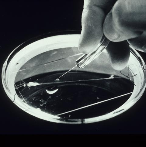 Researchers study the giant squid axon to bring fundamental understanding on how nerve fibers transmit signals. NIH researchers such as Dr. Kenneth Cole, Dr. Tasaki, and many others who worked on axon research at Woods Hole, Massachusetts. In this photograph, the researcher appears to be examining the fibers for detailed research.